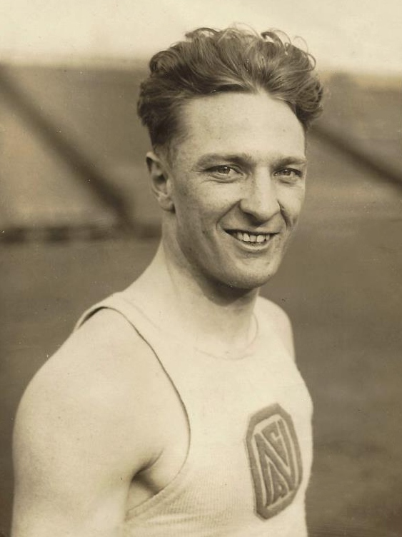 1923 Underwood Press Photo Of AAU 100 Yard Dash Champion Loren Murchisin